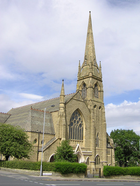 Ukrainian Catholic Church of the Most Holy Trinity and Our Lady of Pochaiv, Park View Road, Manningham, Bradford, West Yorkshire, seen from the south. Built as the Wesleyan Methodist church of St John.